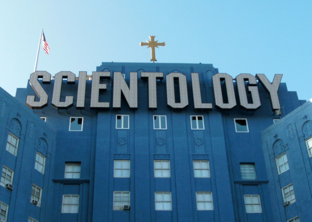 Church of Scientology "Big Blue" building (the former Cedars of Lebanon Hospital) at Fountain Avenue/L. Ron Hubbard Way, Los Angeles, California